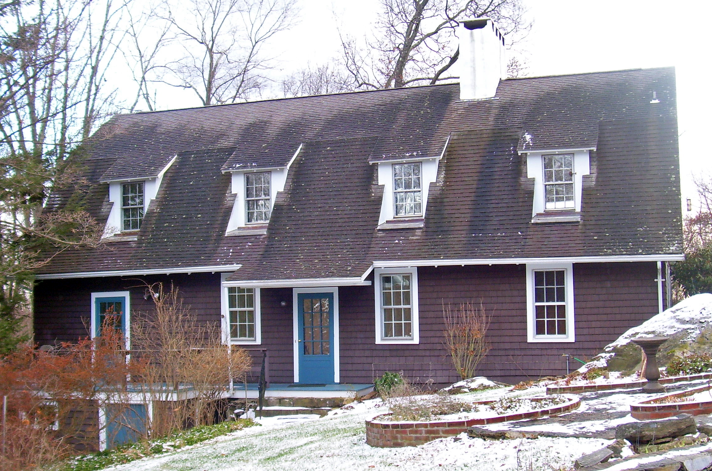 Stepping Stones, home of Alcoholics Anonymous cofounder Bill W. and his wife, in Katonah, NY, USA